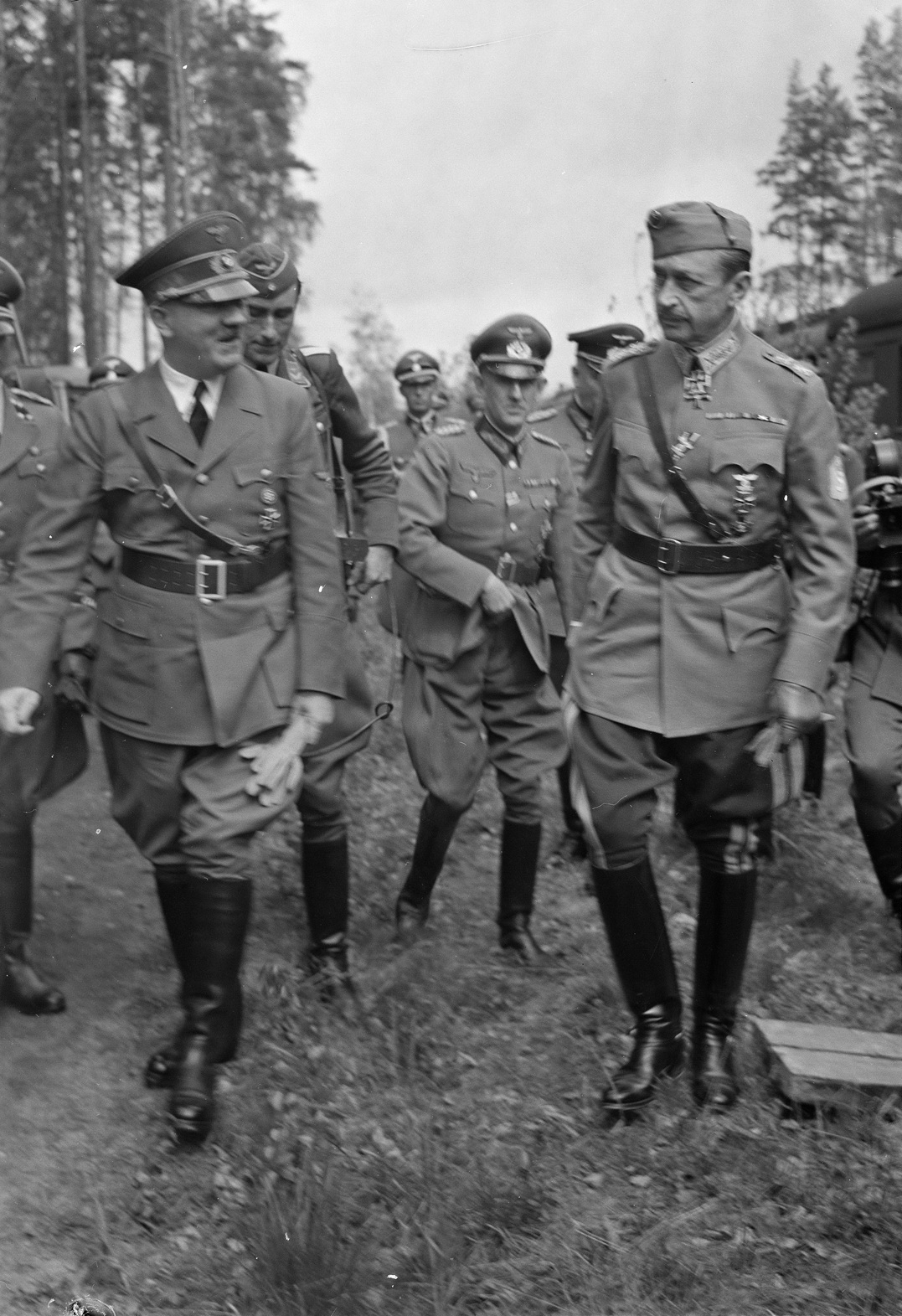 Adolf Hitler and Carl Gustaf Emil Mannerheim in Finland on 4th June 1942